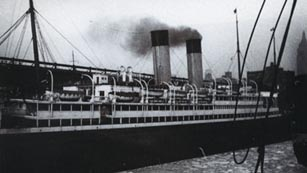 RMS Adiatic at New York